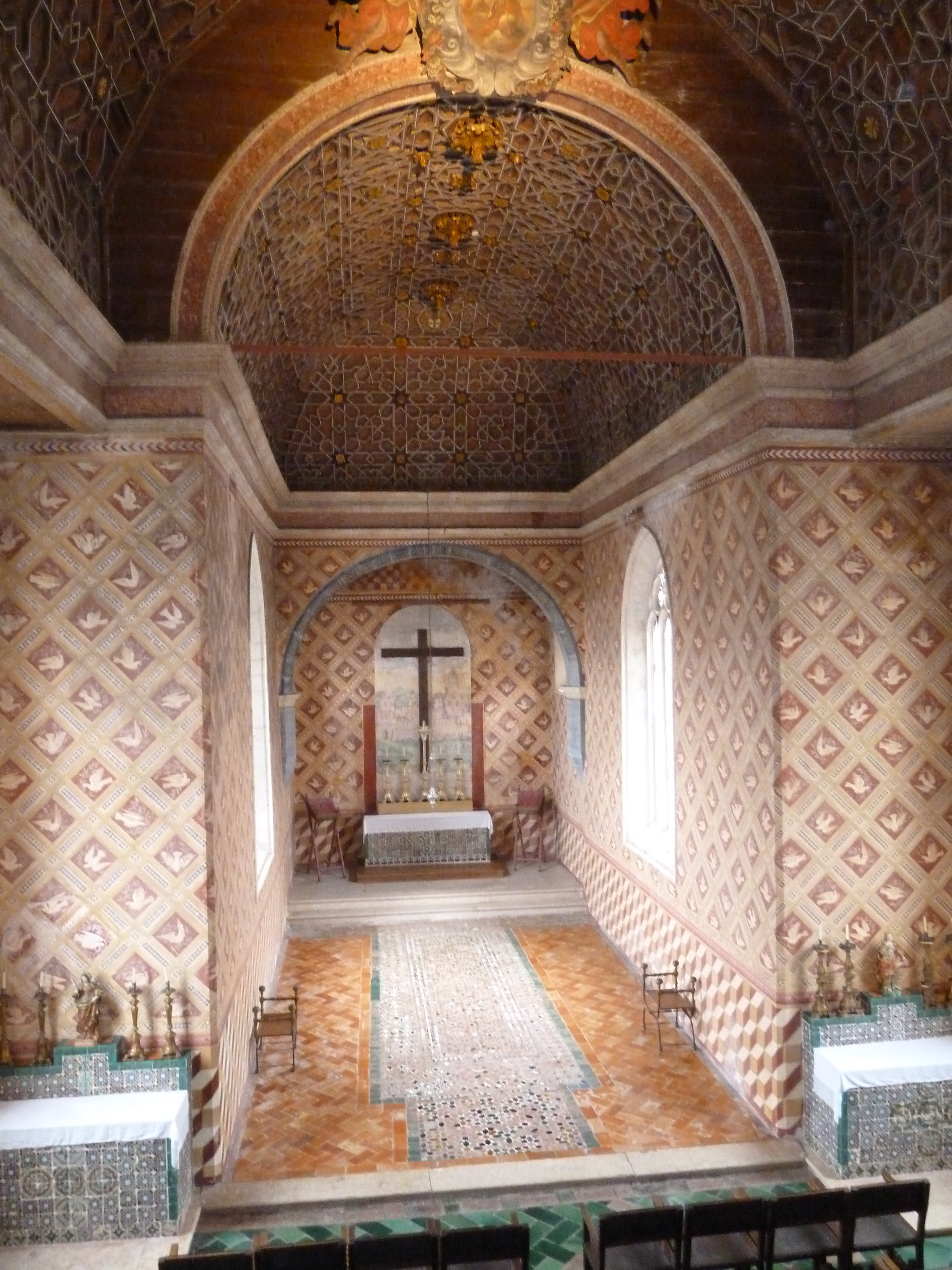 Interiors of Palácio Nacional de Sintra, Sintra